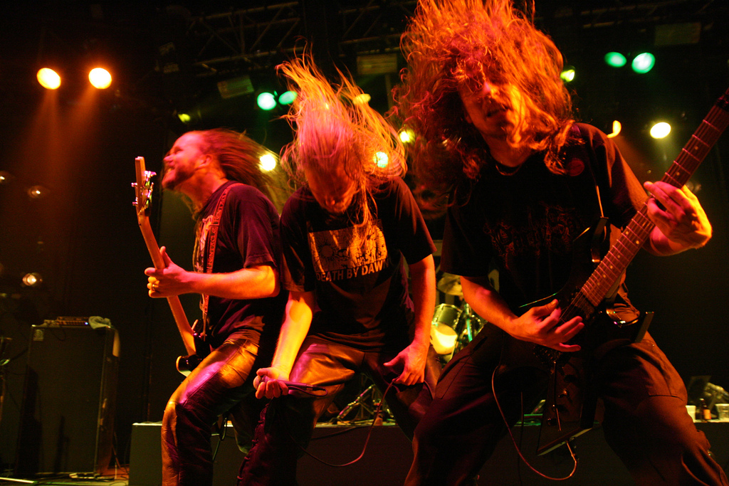 Asphyx, during a concert in 2007 in London. I (User:Hervegirod) made this picture myself. The original is on my flickr home page, which states this image is my own work